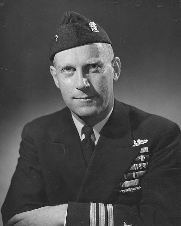 Commander Richard H. O'Kane, U.S. Navy, photographed in about March 1946, shortly after he had been awarded the Medal of Honor.